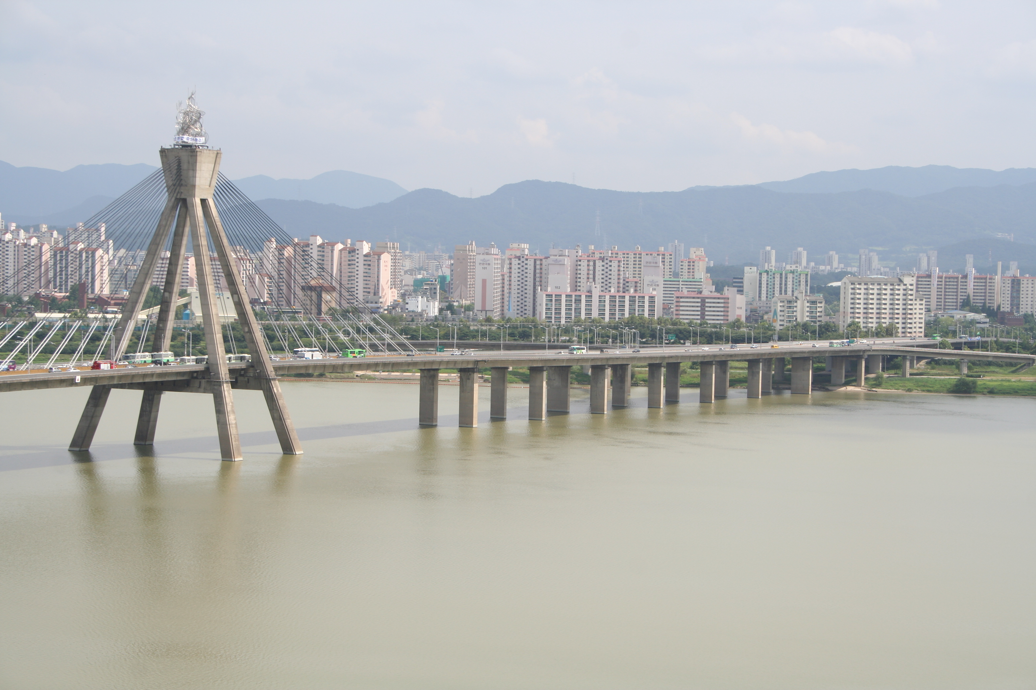 Olympic Bridge over Han River, Seoul, South Korea